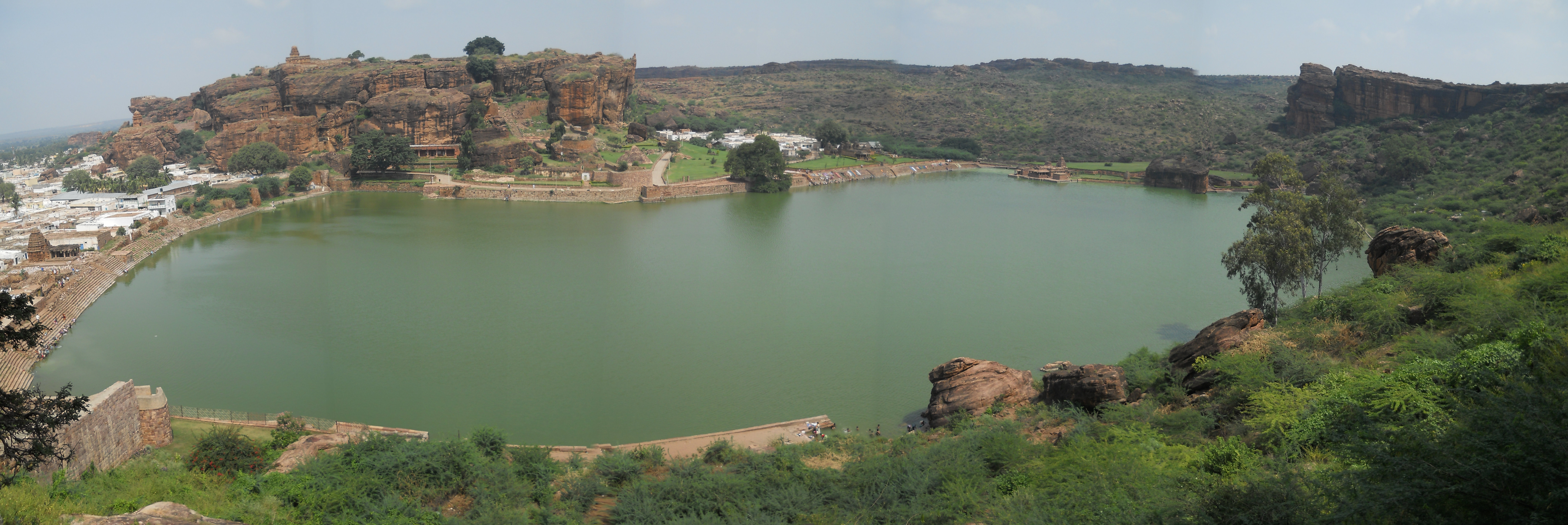 Panoramic view of Agastya lake, Badami